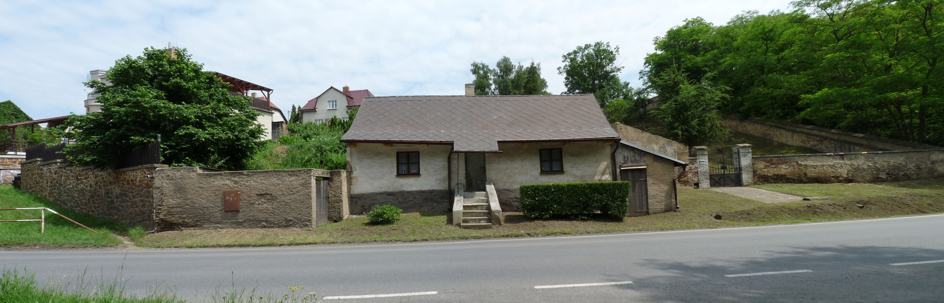 View of the Jewish cemetery in the town of Rakovník, Central Bohemian Region, Czech Republic.